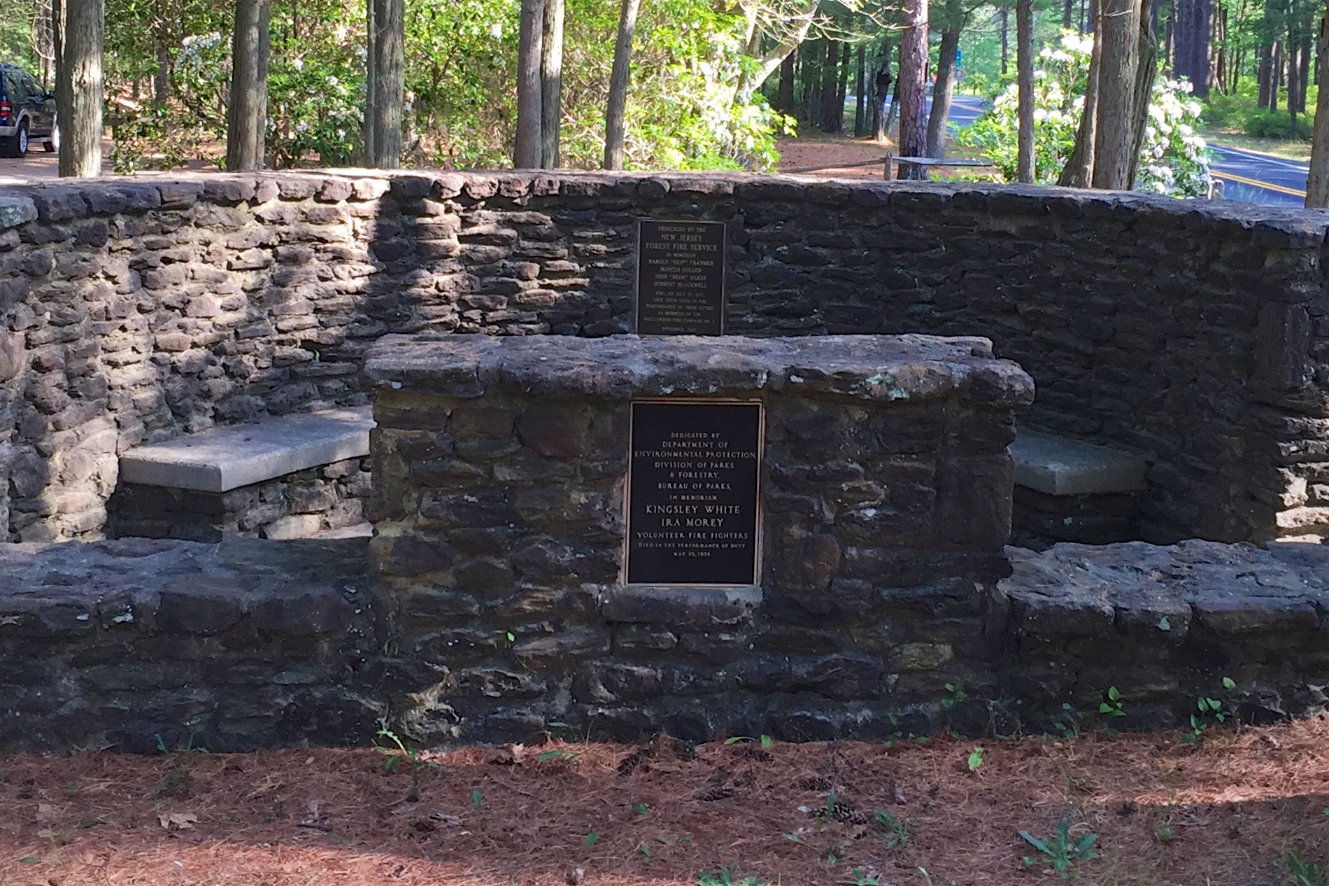 The 1936 / 1977 Wildland Firefighter Memorial at the Bass River State Forest in Bass River Township, New Jersey.